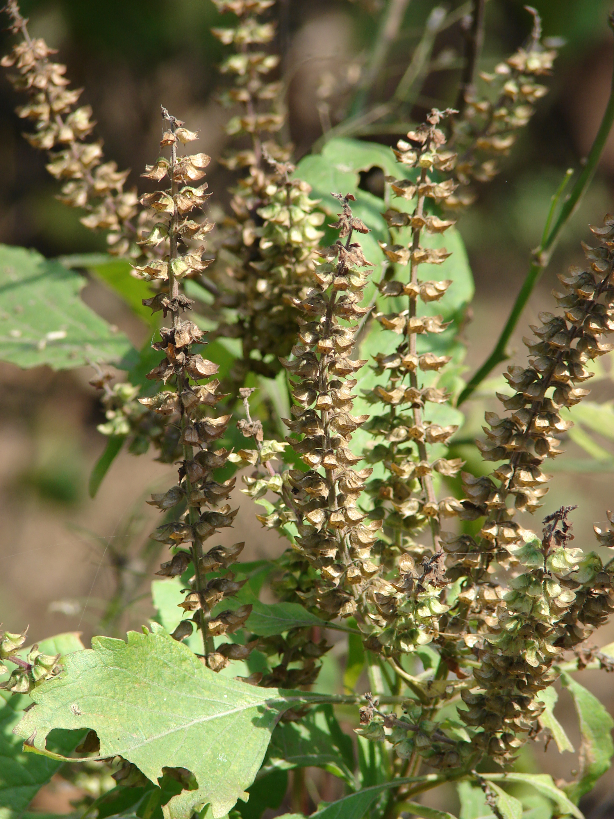 Ocimum gratissimum (seeds). Location: Maui, Makena Landing